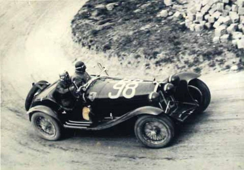 Alfa Romeo 8C 2300 entry #98 driven to VICTORY by Tazio Nuvolari and co-driver Decimo Compagnoni in the Mille Miglia race on 8–9 April 1933.